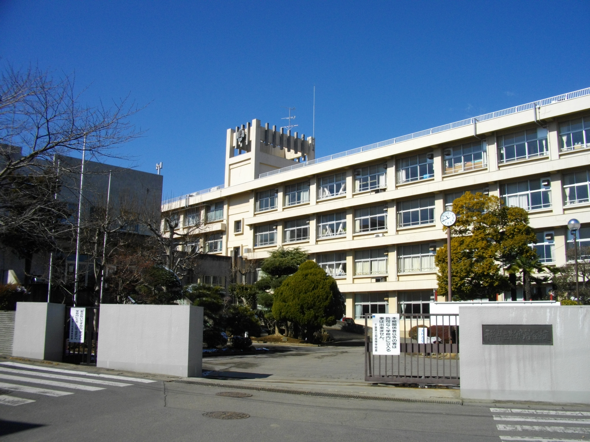 Chiba Prefectural Kashiwa High School